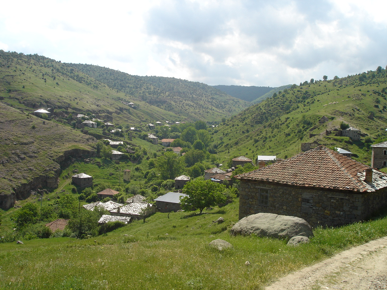 village of Polchishte in Mariovo region, Macedonia